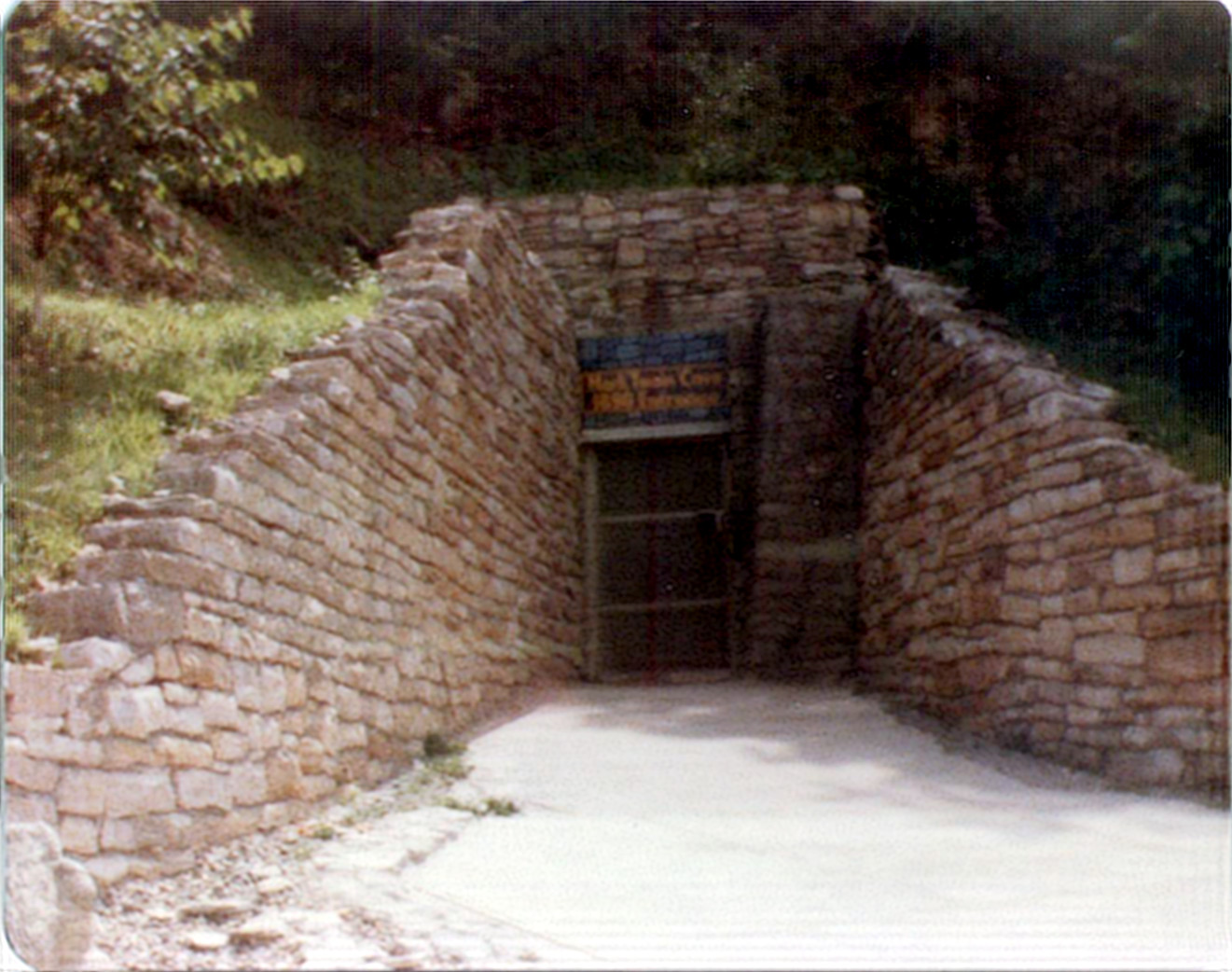 Mark Twain Cave 1890 Entrance south of Hannibal, Missouri.